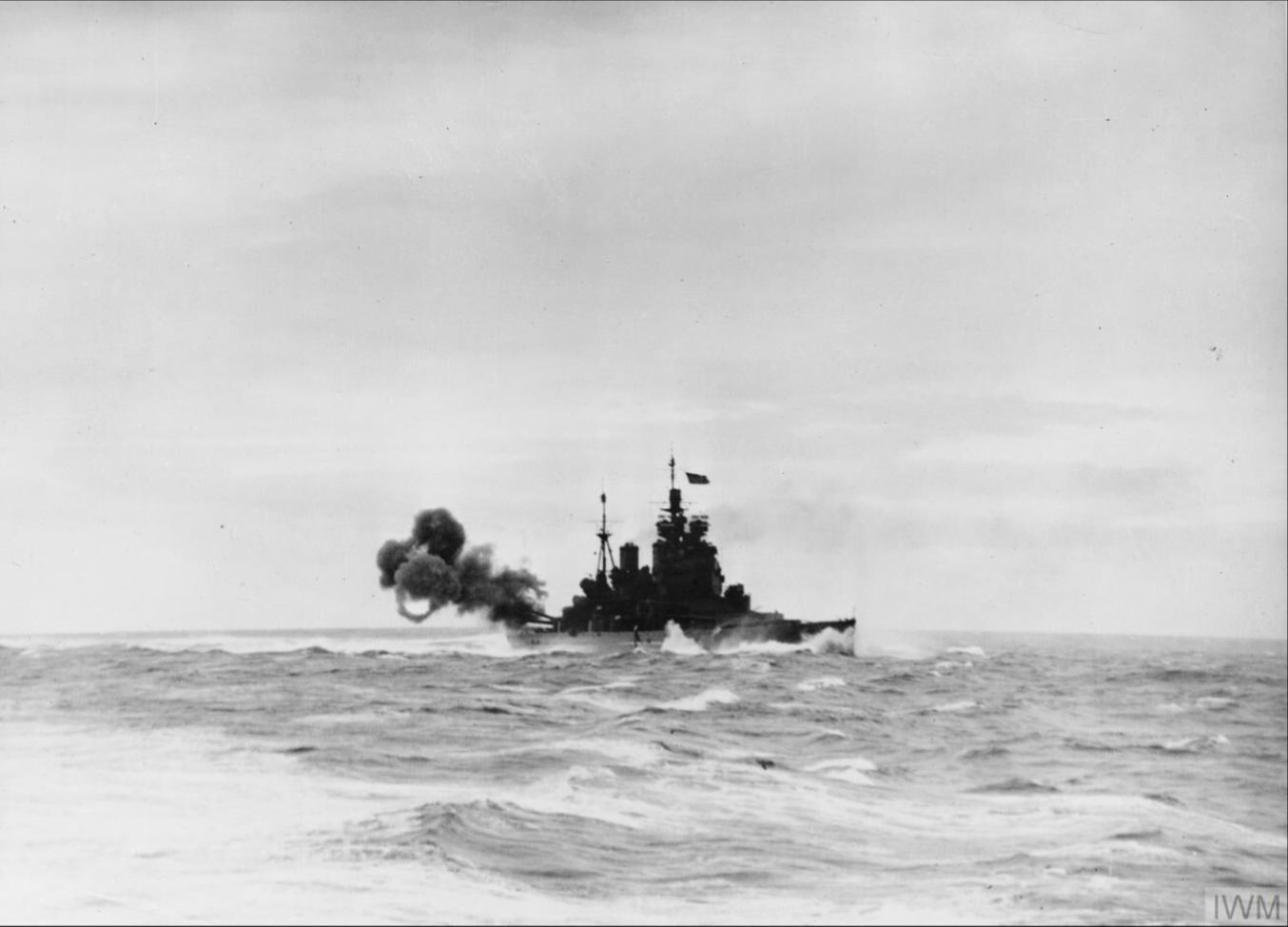 HMS Duke of York at Sea. 27 February 1942, on Board the Escorting Destroyer HMS Bedouin. The 14" guns of HMS DUKE OF YORK's Y turret on the quarterdeck firing a full calibre salvo during an exercise. Notice the smoke ring often made by gun fire.